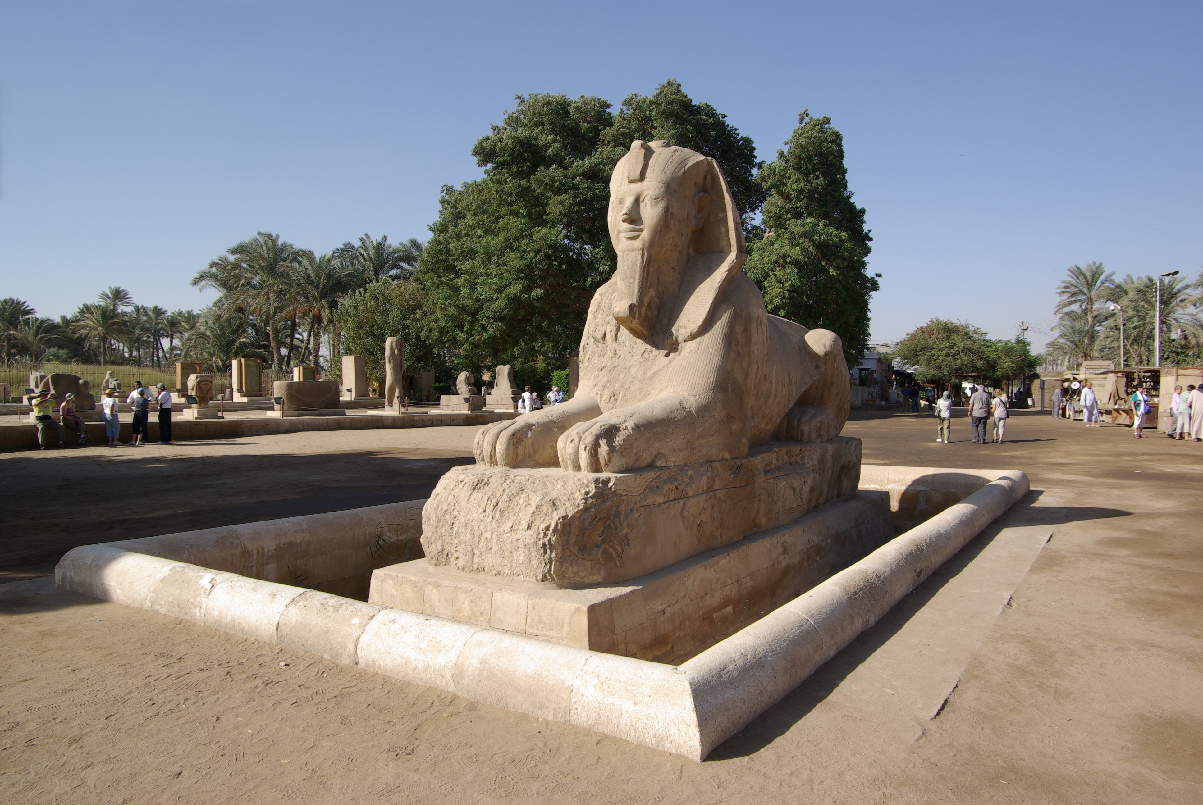 Egypt, Memphis, Sphinx of Memphis